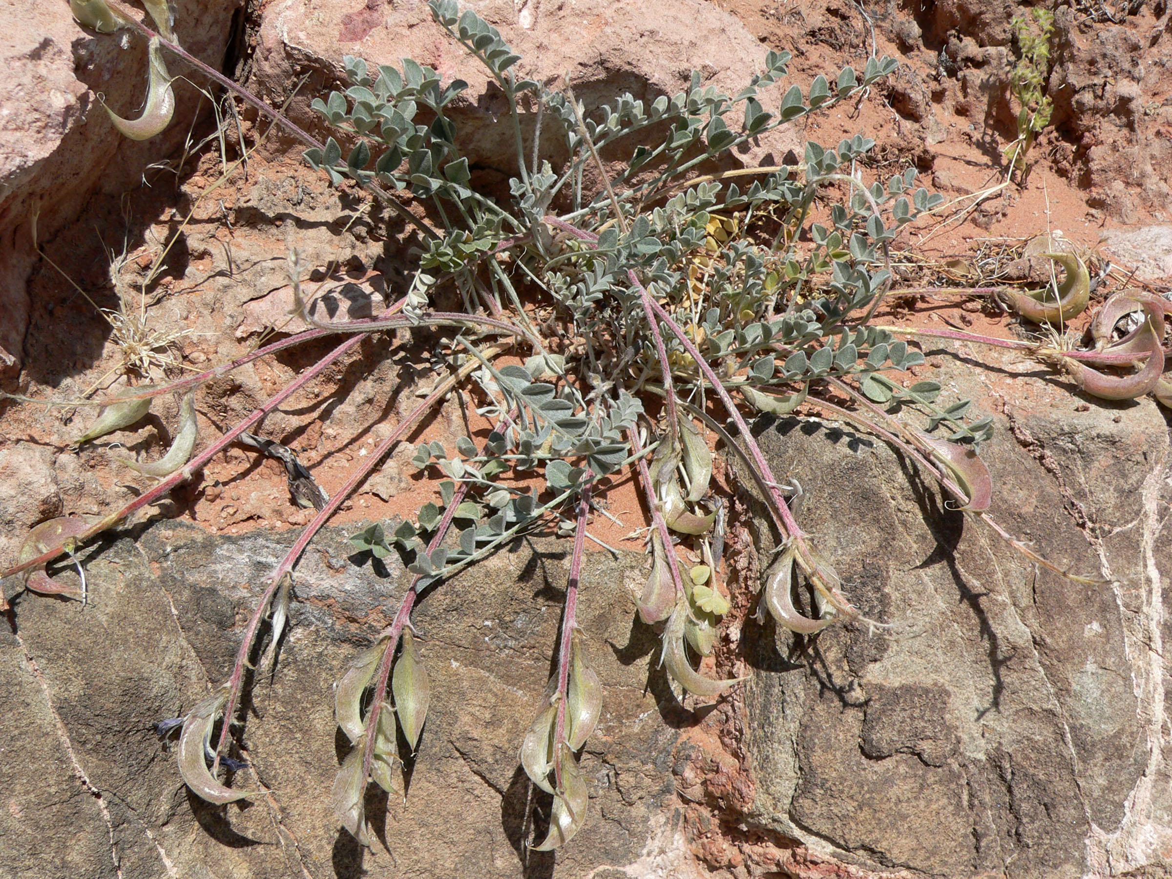 Astragalus amphioxys var. amphioxys in the rocks above Red Spring, Calico Basin, Spring Mountains, southern Nevada (elev. about 1100 m)